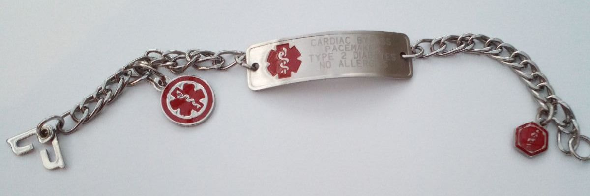 A medical alert bracelet, engraved: CARDIAC BYPASS PACEMAKER TYPE 2 DIABETES NO ALLERGIES